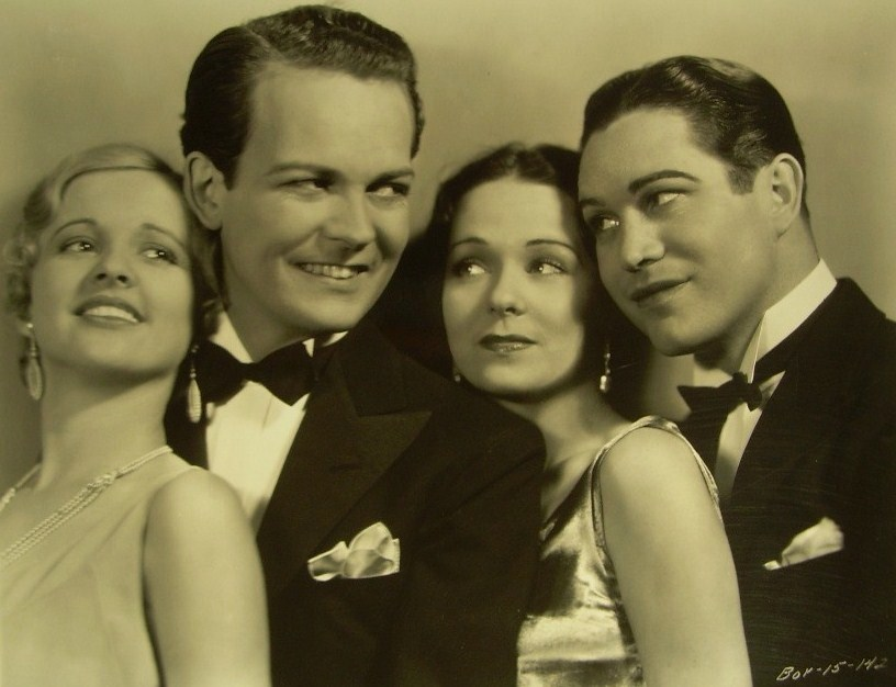 L. to R. : Lucile Browne, Don Dillaway, Rosalie Roy, and Terrance Ray in Young as You Feel (1931) - publicity still (cropped)